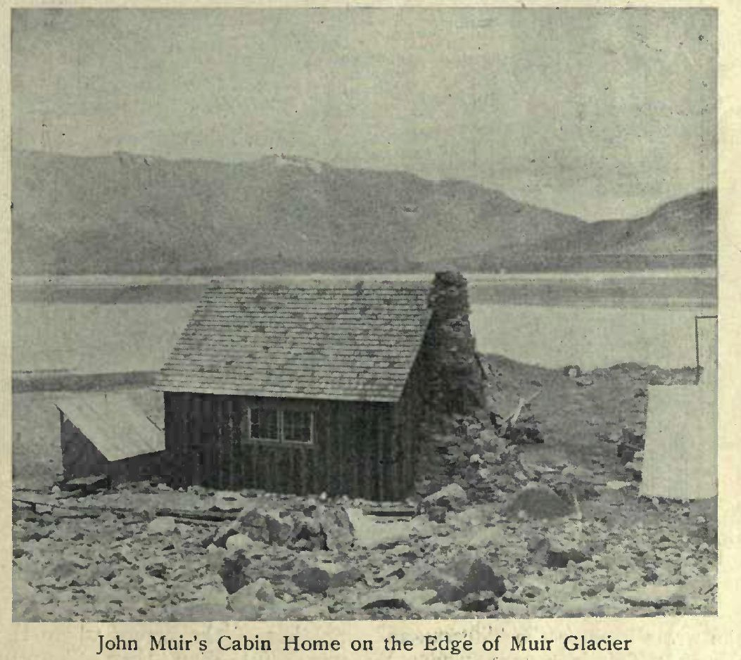 John Muir's Cabin on Muir Glacier, Alaska from Overland Monthly January 1900